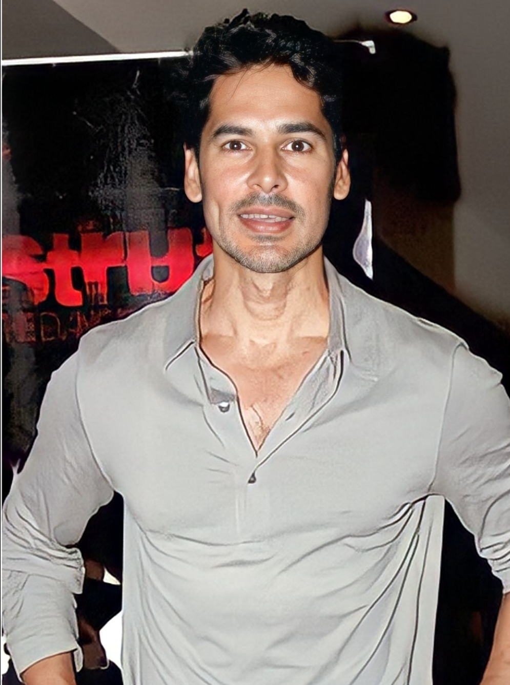 Dino Morea snapped at Strut Dance Academy event.